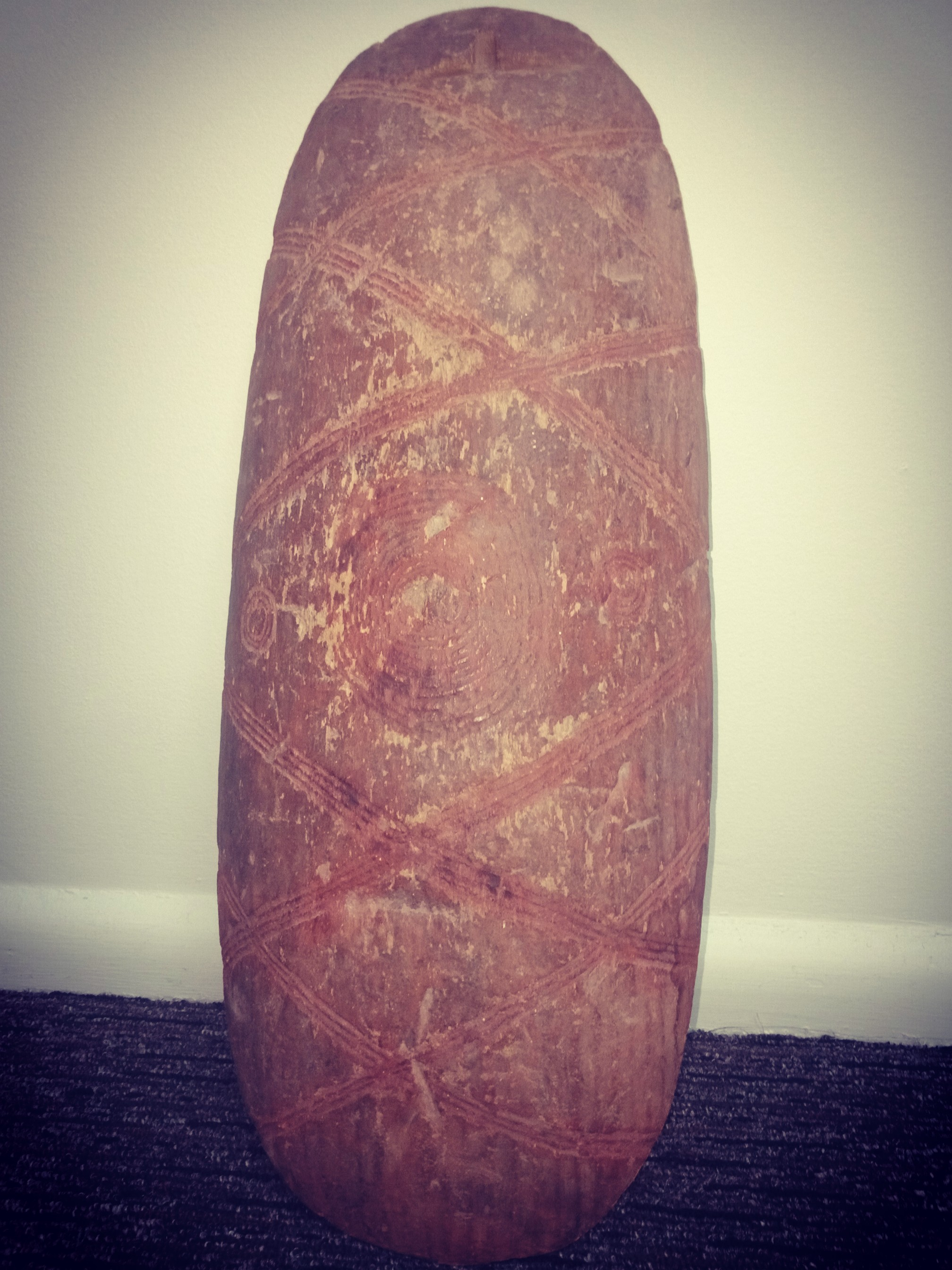 A Yugambeh shield from the Tamborine area, donated in 1925